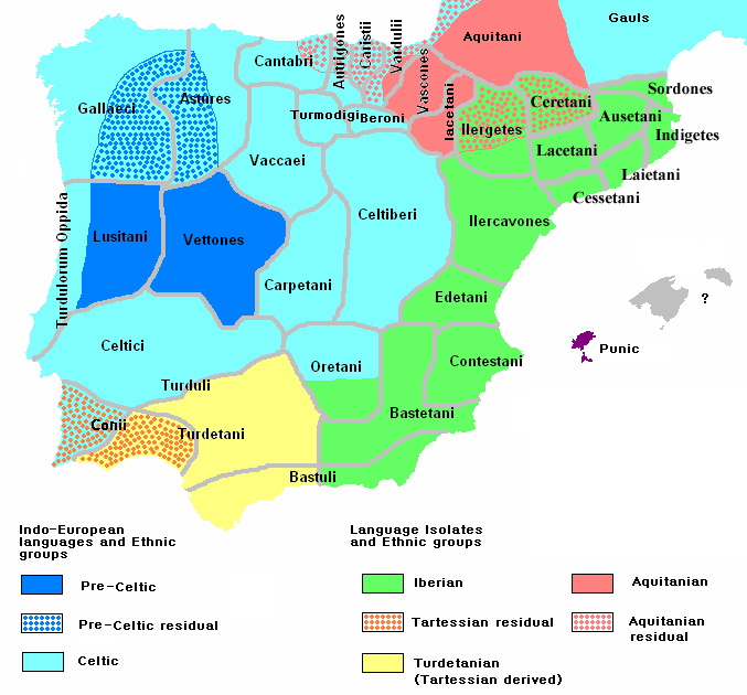 Ethnographic and Linguistic Map of the Iberian Peninsula at about 200 BCE (at the end of the Second Punic War). Based on the map done by Portuguese Archeologist Luís Fraga , from the "Campo Arqueológico de Tavira" (Tavira Archeological Camp - official site), in Tavira, Algarve - Portugal. The reference map can be found at this location, and a pdf version, with extensive and detailed information on the criteria used, as well as the long bibliography used to source the map can be found here.